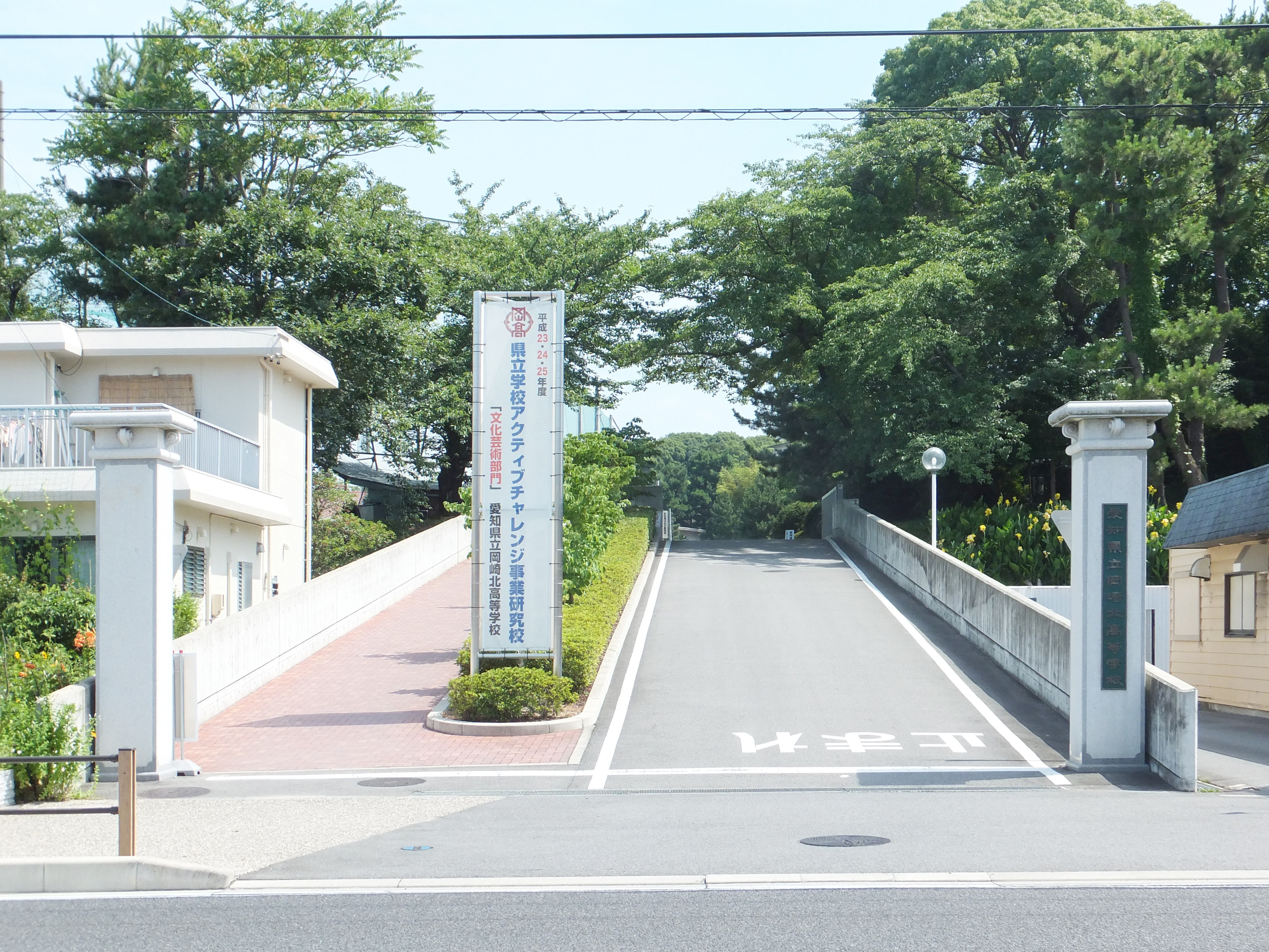 Aichi Prefectural Okazaki Kita High School (愛知県立岡崎北高等学校), located at 17-1, Ishigami-cho, Okazaki, Aichi, Japan